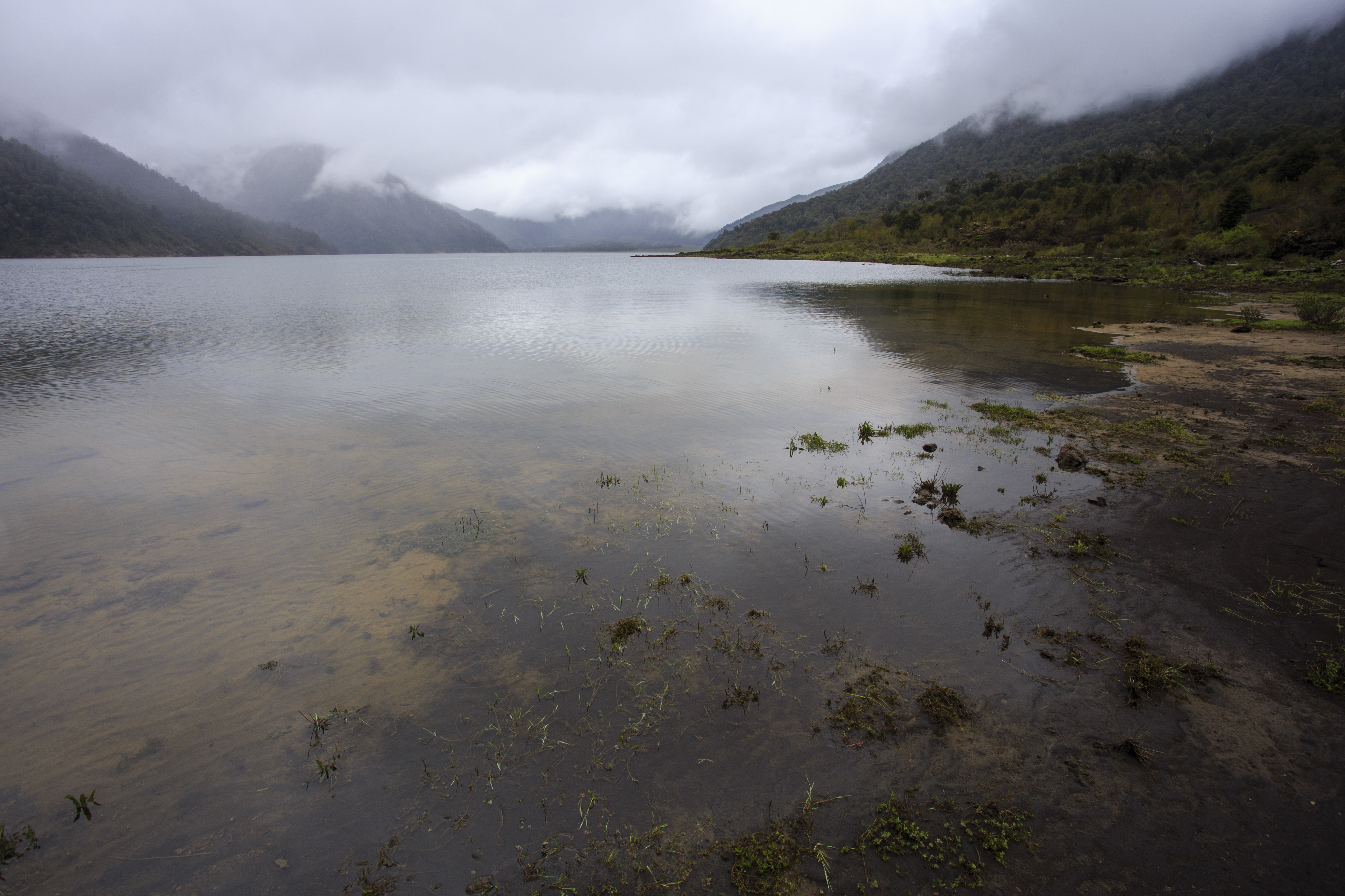 Lago Cabrera, Hualaihué, Chile.